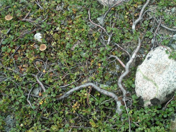 Betula nana — image of nearly the whole prostrate tree. Kola Peninsula, Barents Sea, arctic Russia.